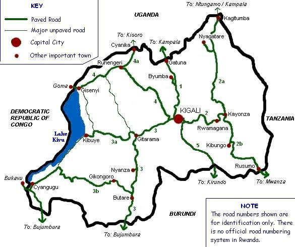 A sketch map of the Rwandan road network drawn by SteveRwanda. See Transport in Rwanda.